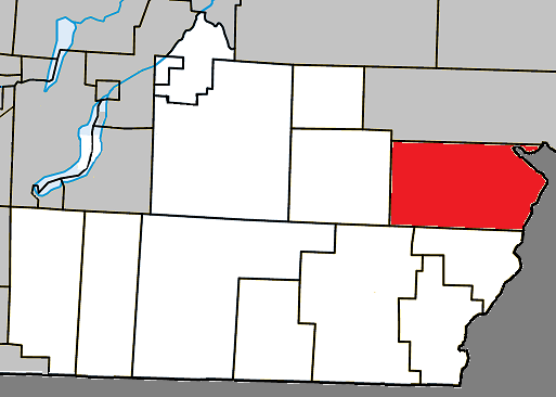 Location of Saint Malo within Coaticook Regional County Municipality.